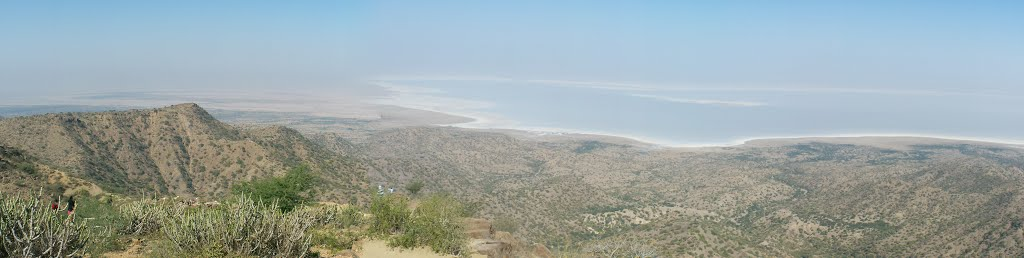 This place is situated in hilly areas of kutch Gujarat from which you can experience the beautiful view of white rann(desert) of kutch